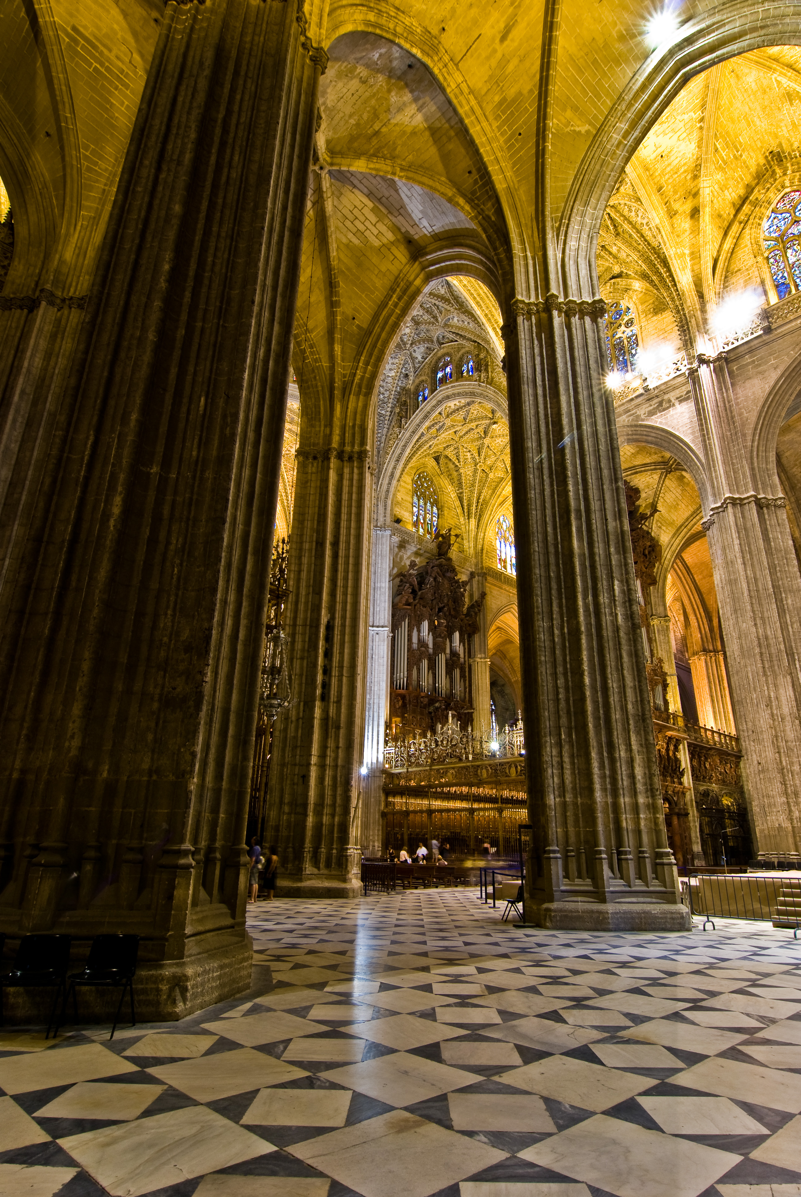 Interior (Seville cathedral, Spain)